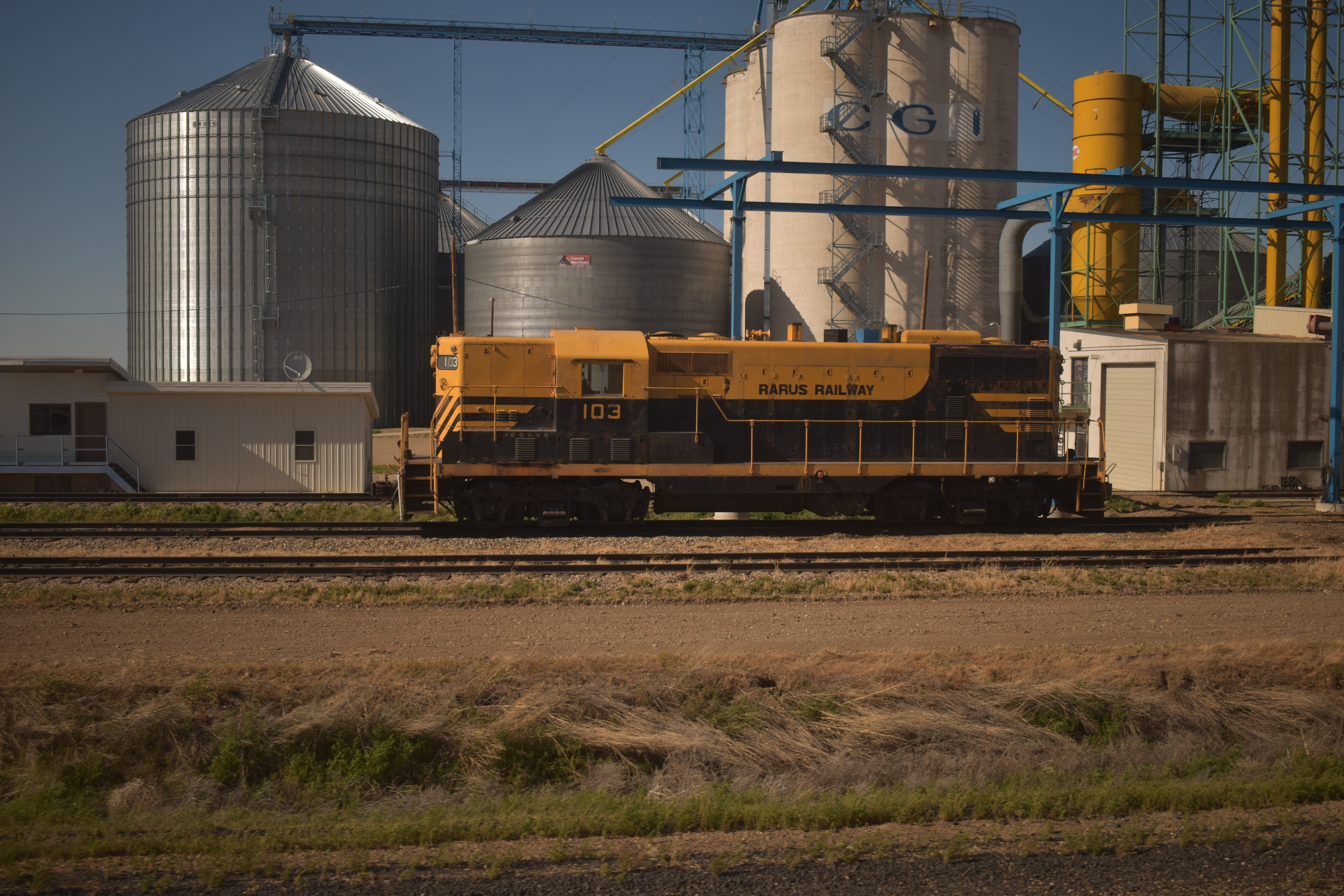 Rarus Railway 103, a GP7, built in 1953 for the railroad when it was known as the Butte, Anaconda, and Pacific (which it is now known as once again today). Currently serving as a switcher at Columbia Grain in Rudyard, Montana.